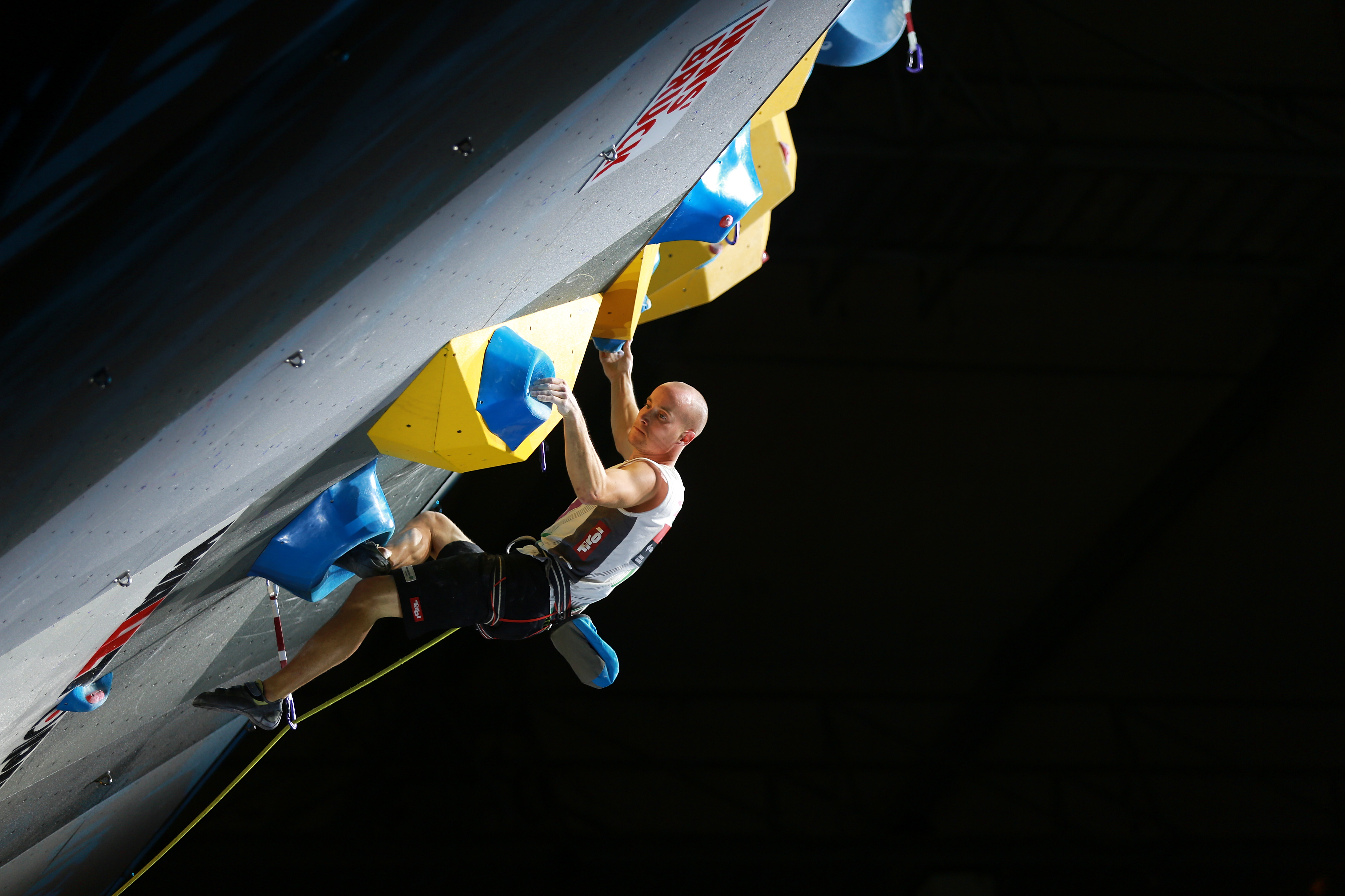 Climbing World Championships 2018 Lead Semi Rudigier